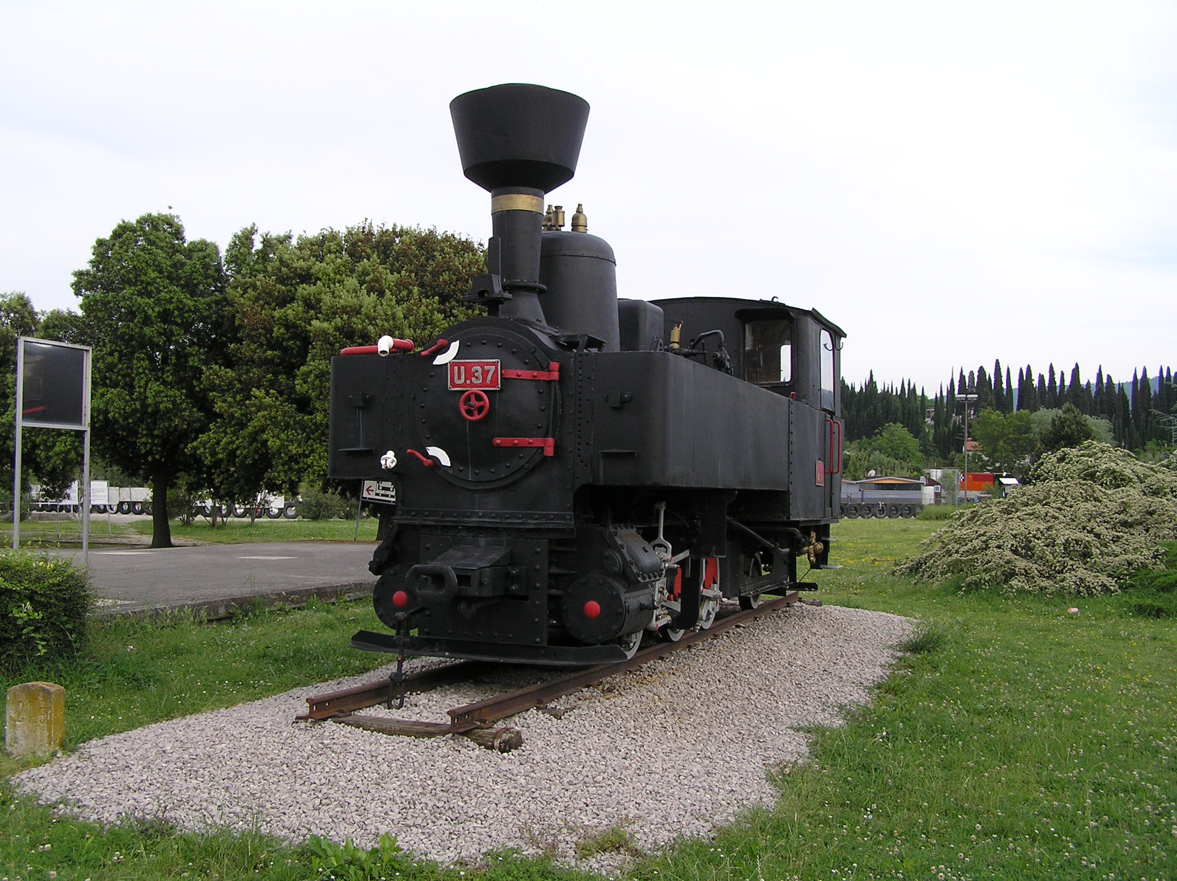 U.37 narrow gauge locomotive of Parenzana in Koper, Slovenia